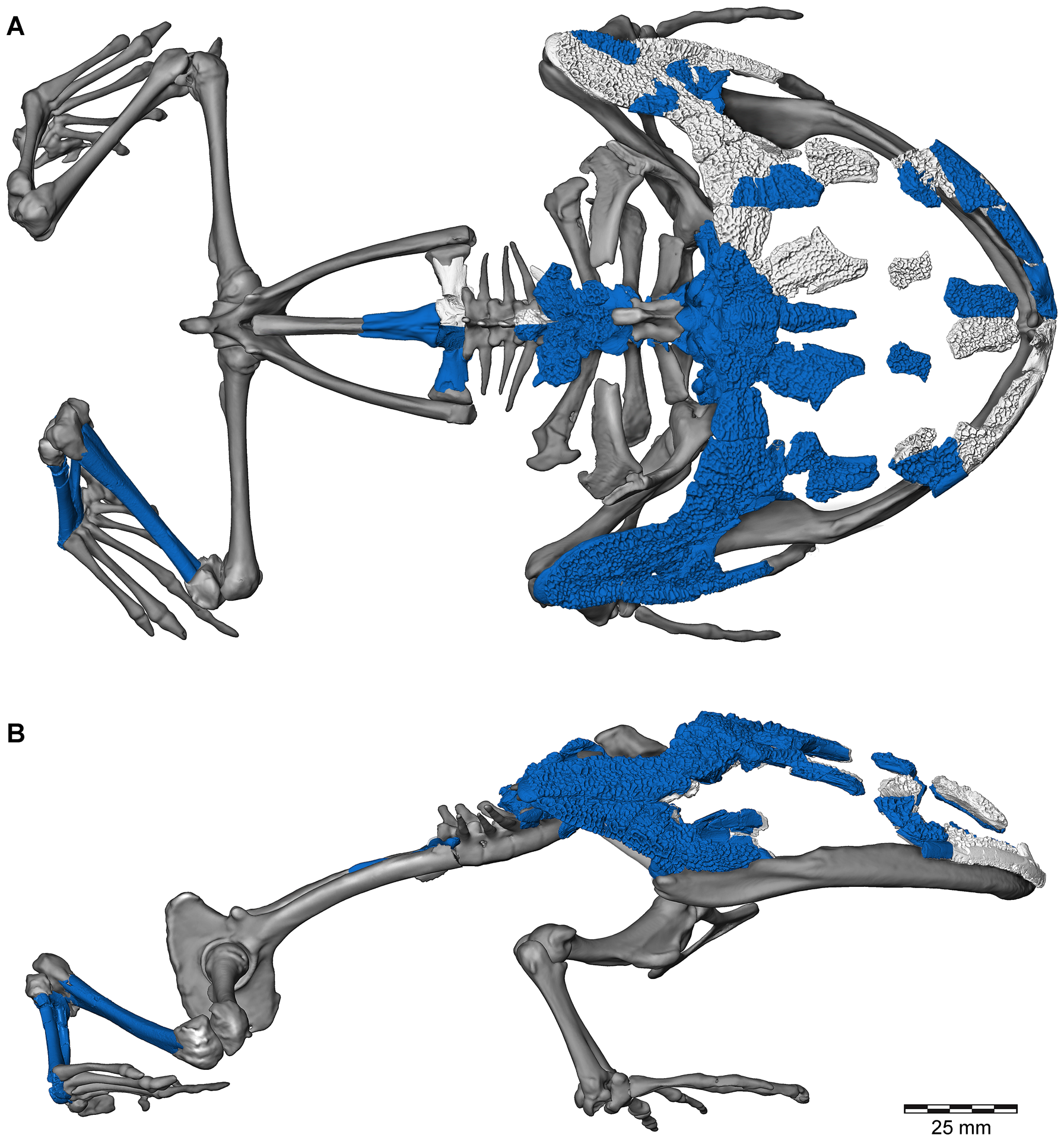 Three-dimensional digital reconstruction of skeleton of Beelzebufo ampinga highlighting sources of material for reconstruction. A, dorsal view; and B, right lateral view (with left limbs removed for visual clarity). Beelzebufo specimens used in model in dark blue. Light grey cranial and vertebral materials inferred from known morphology of Beelzebufo specimens, primarily through mirror-imaging. Dark grey jaws and postcranial elements modelled on large female specimen of Ceratophrys aurita (LACM 163430). See Supporting Information S1 for detailed description of model.